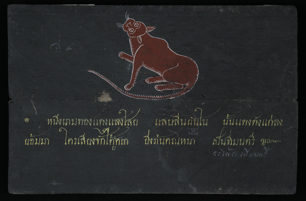 Photo of Suphalak Poem and Drawing in the Samut Khoi - Tamra Maew Manuscript